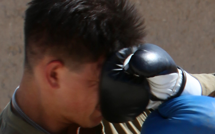 Staff Sgt. Francisco Martinez, a platoon sergeant with Lima Company, 3rd Battalion, 7th Marine Regiment, takes a punch to the face during a boxing match, Sept. 22. Martinez, a 27-year-old native of St. Paul, Minn., and fellow Marines joined together with the British 40 Commando, British Royal Marines, for some physical training. The boxing matches attracted crowds of U.S. and UK Marines cheering on the fighters. Martinez said he is a former golden glove boxer and has been boxing for 15 years.